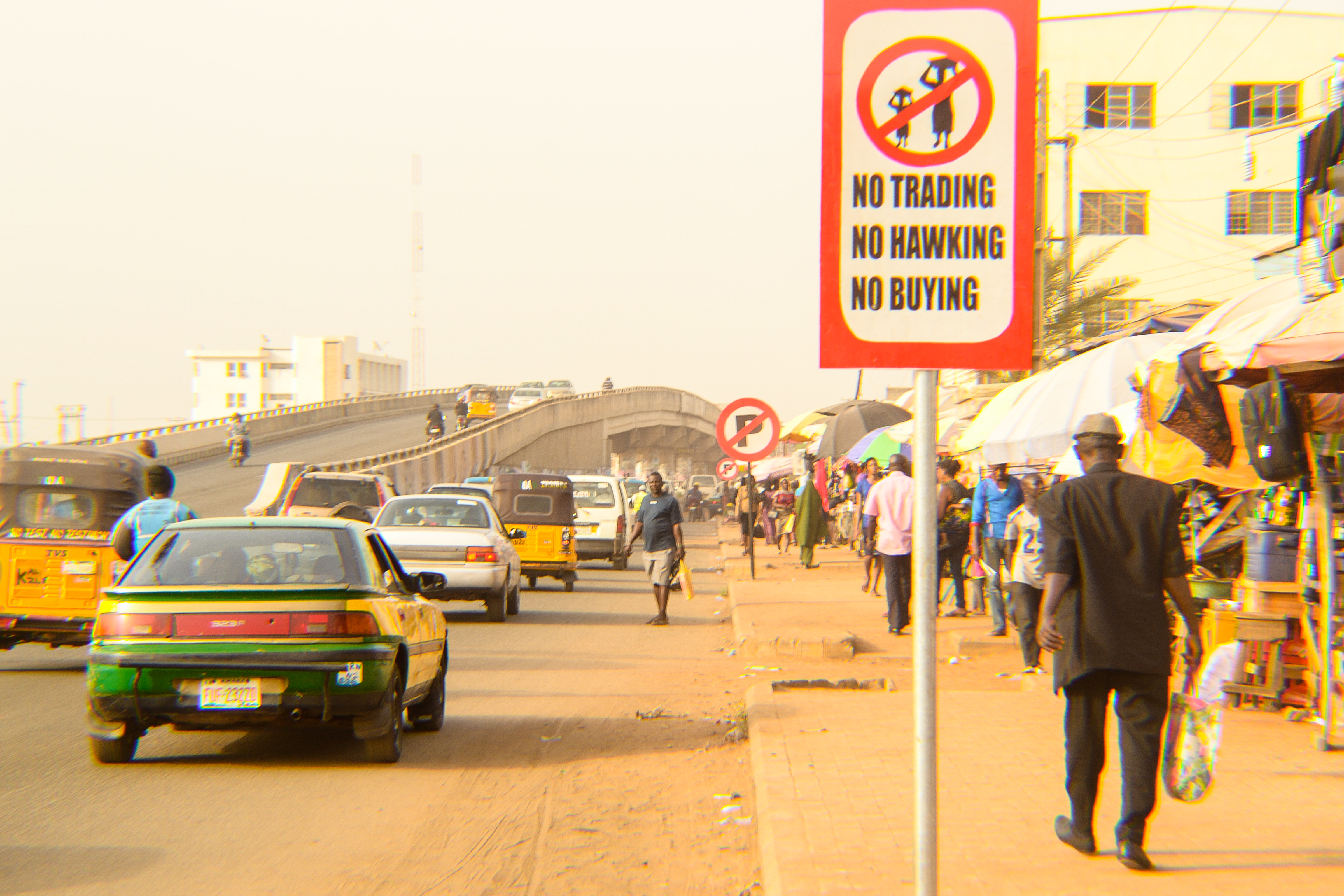 POST OFFICE ROUTE, KWARA STATE This is an image with the theme "Africa on the Move or Transport" from: Nigeria